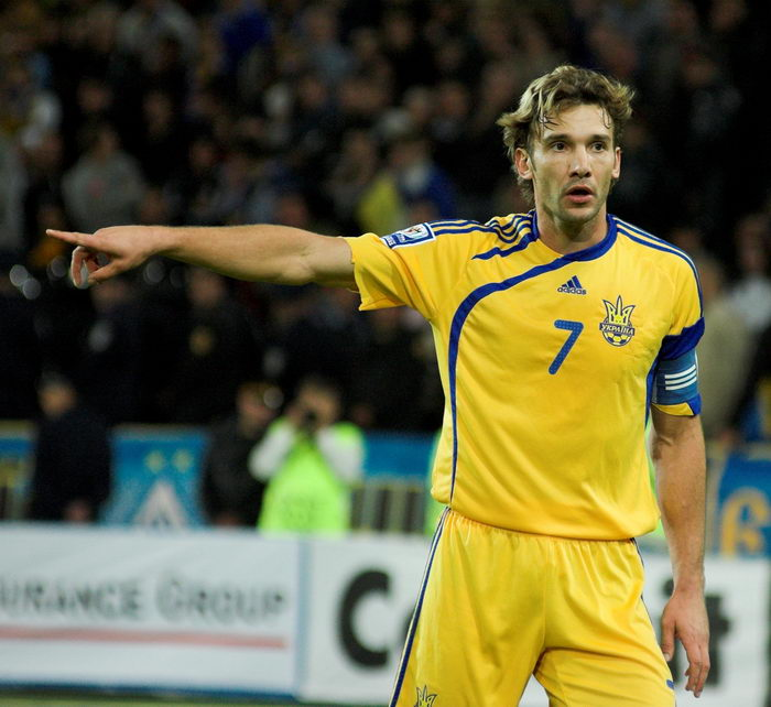 Andriy Shevchenko